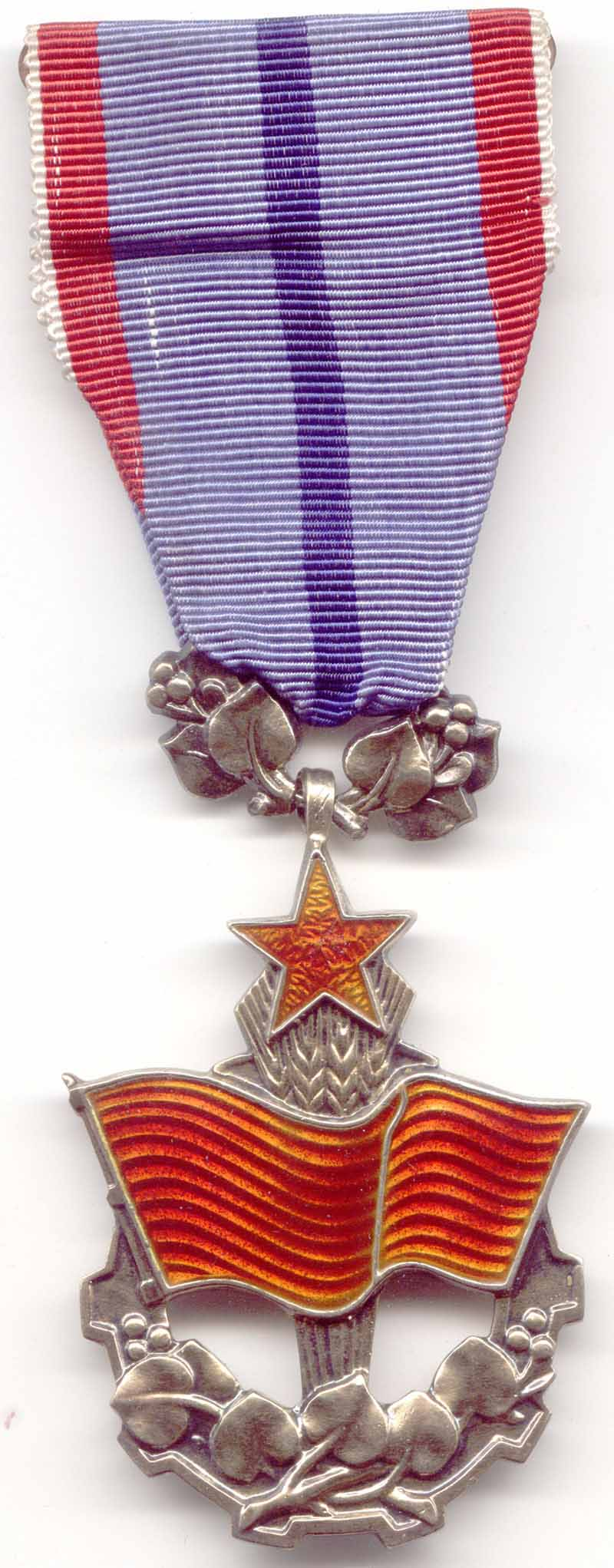 Order of the Red Banner of Labour (CSSR)